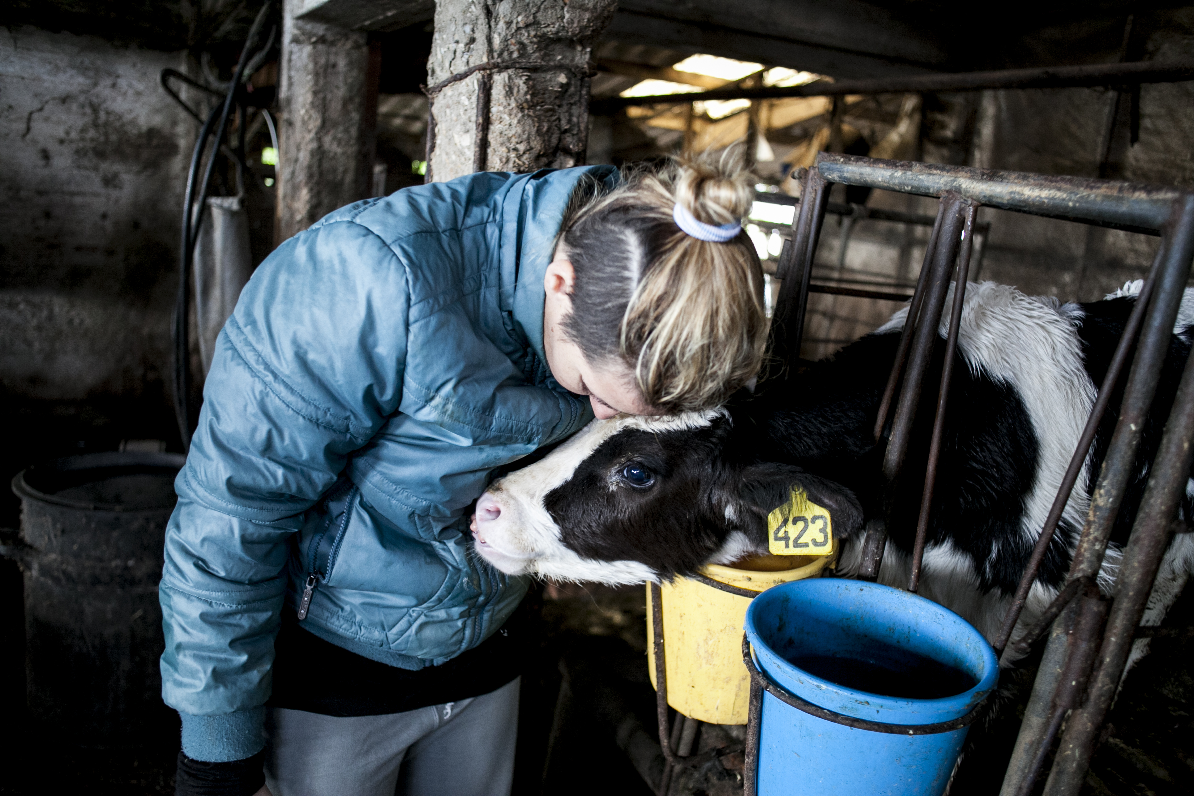 tal gilboa